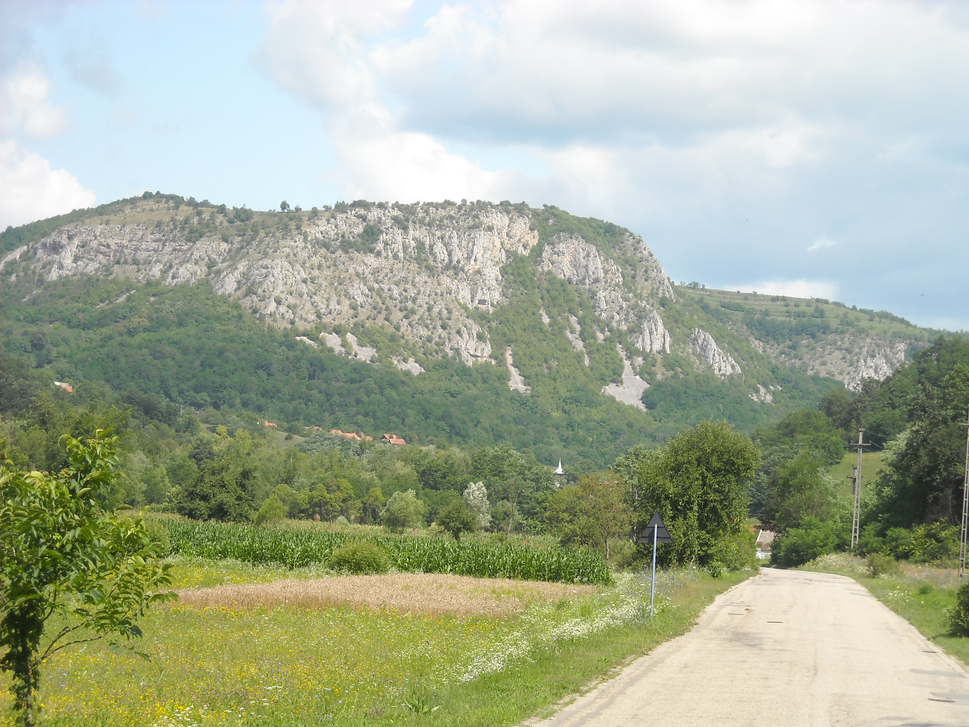 the Măgura Crăciuneștilor